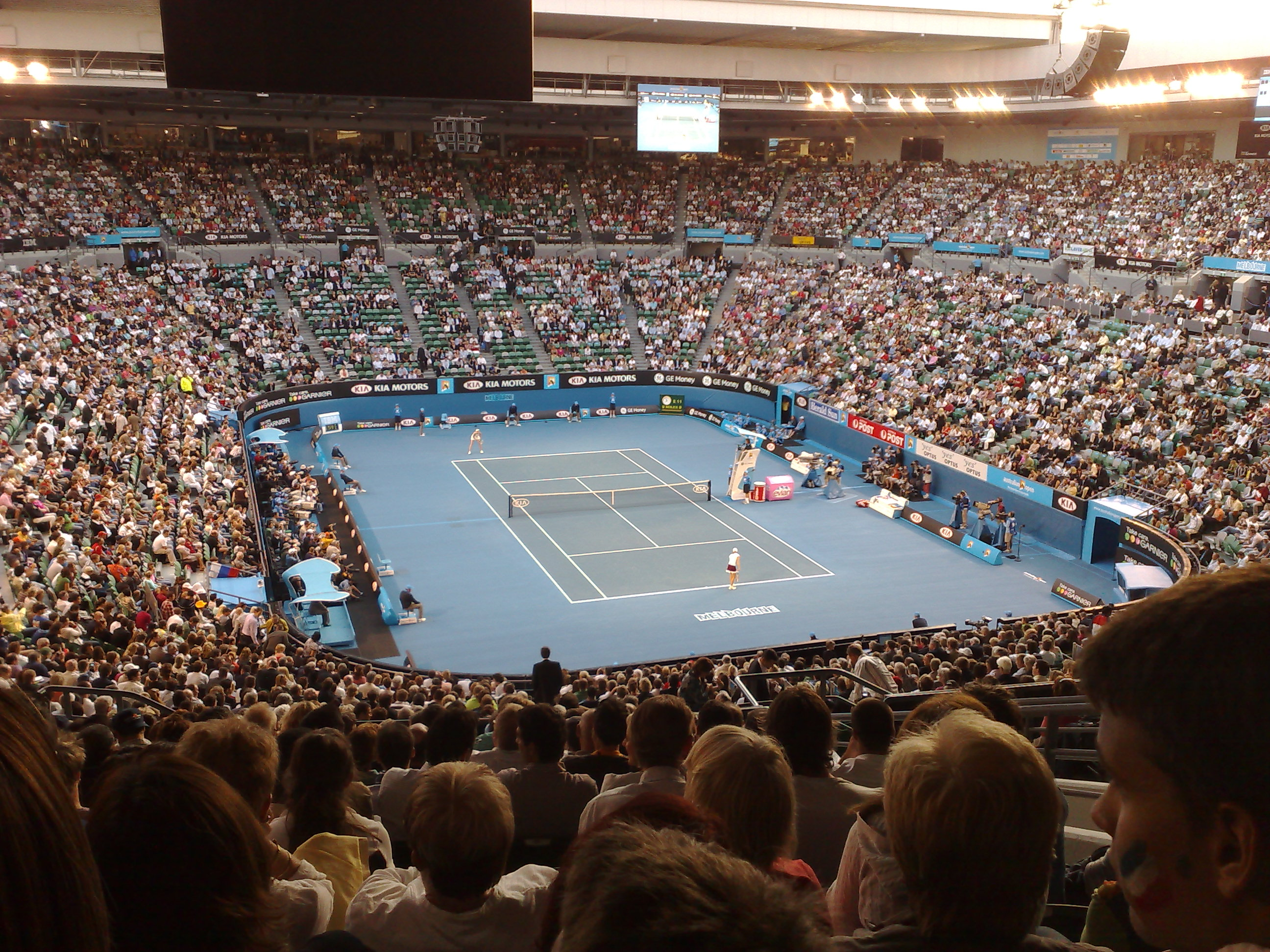 Camera phone upload powered by ShoZu